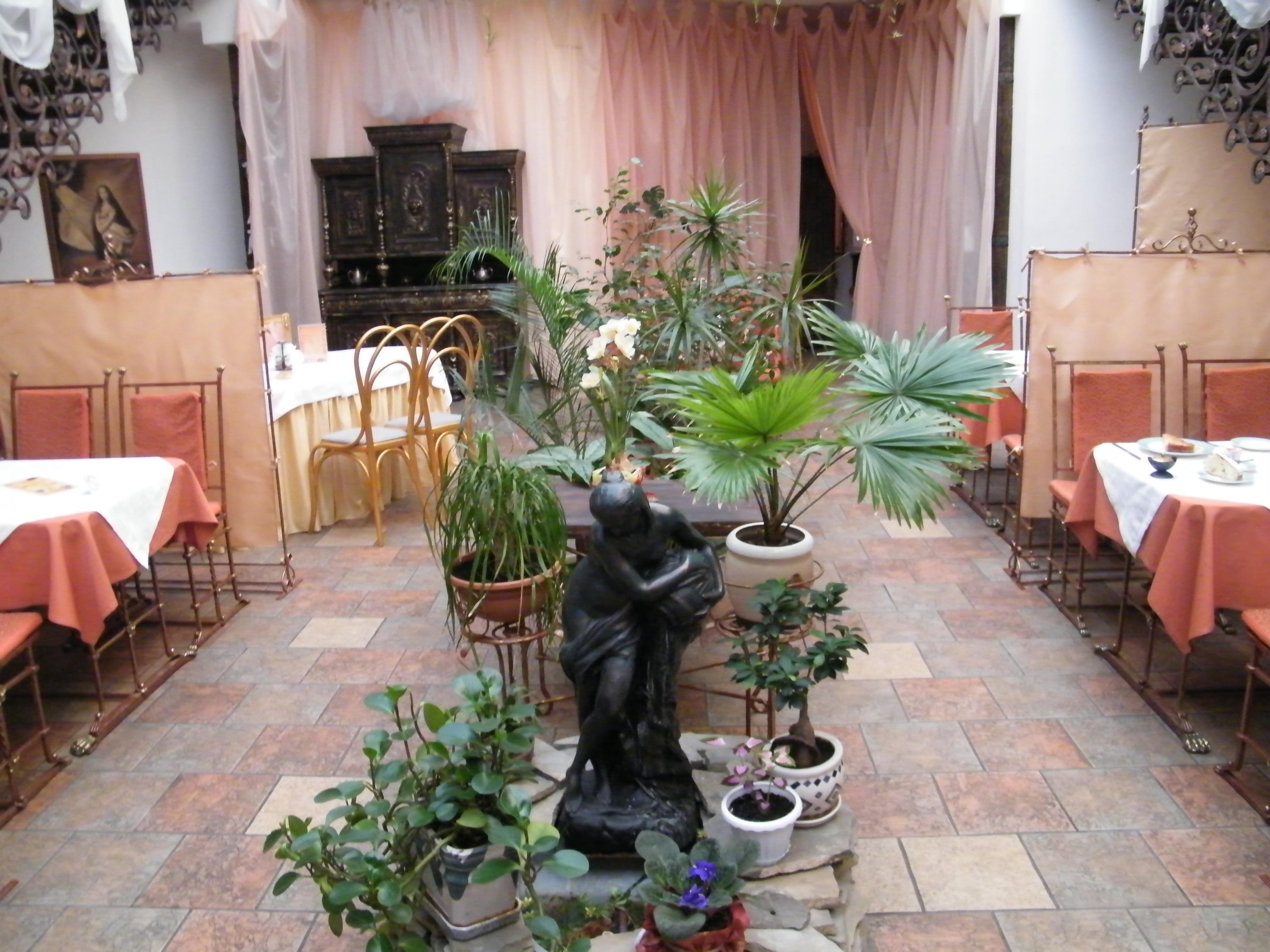 Hotel "Spanish Patio", Donetsk